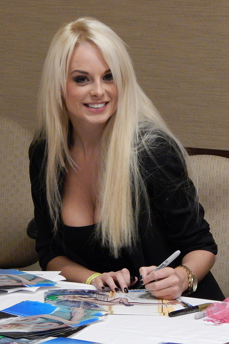 Rhian Sugden signing autographs at Boston Megafest Nov. 2013